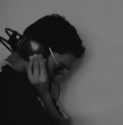 Michael Fernandez AKA Mike Feast